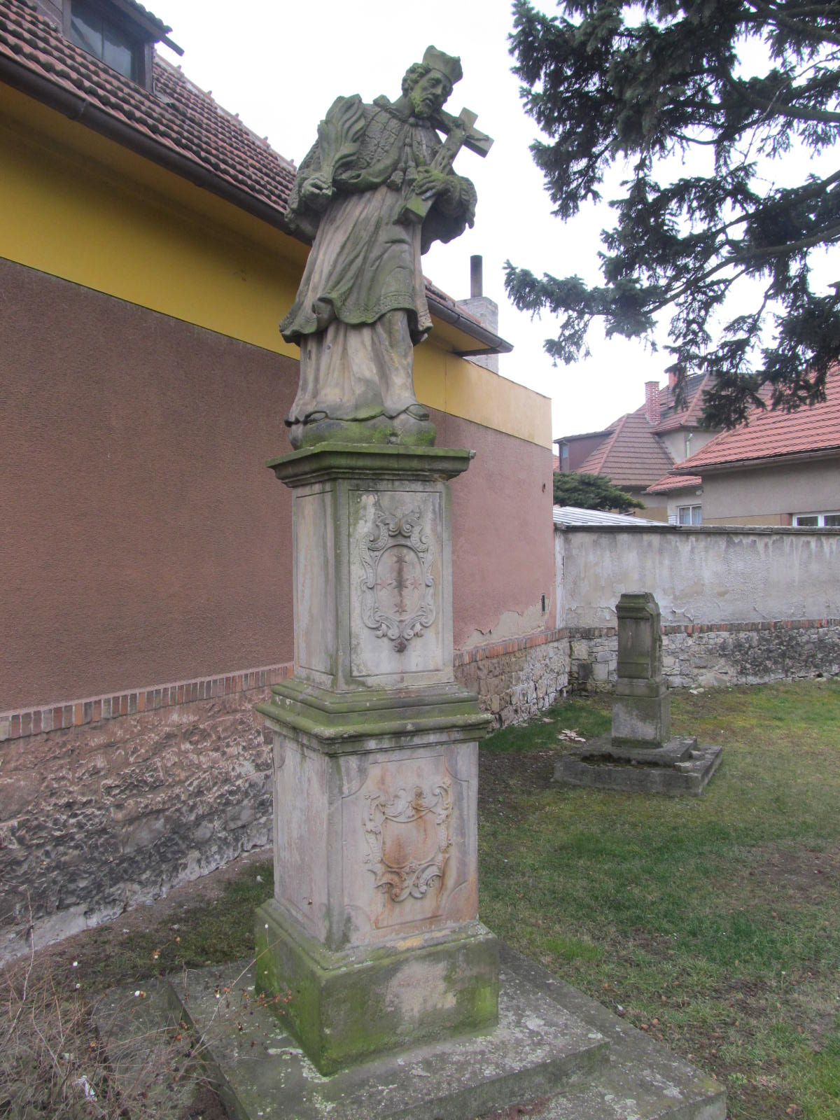 Statue of Saint John of Nepomuk in Louny